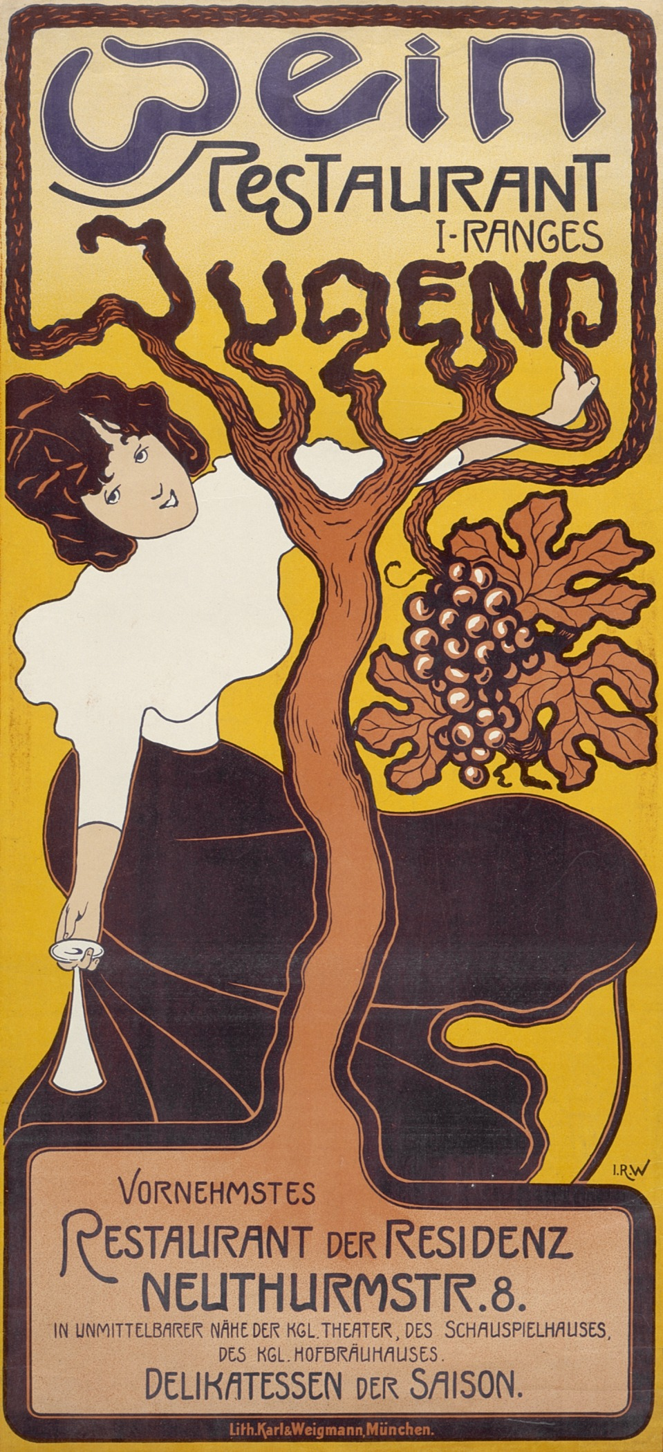 Germany, Munich, 1891 Alternate Title: Wein Restaurant Ersten Ranges Jugend. München, Neuthurmstraße 8 Prints; posters Lithograph printed in yellow, orange, violet, beige and white on wove paper Image: 32 1/4 x 14 9/16 in. (81.92 x 36.99 cm); Sheet: 32 13/16 x 15 1/8 in. (83.34 x 38.42 cm) Gift of the Robert Gore Rifkind Foundation, Beverly Hills, CA (M.2003.114.55) German Expressionism